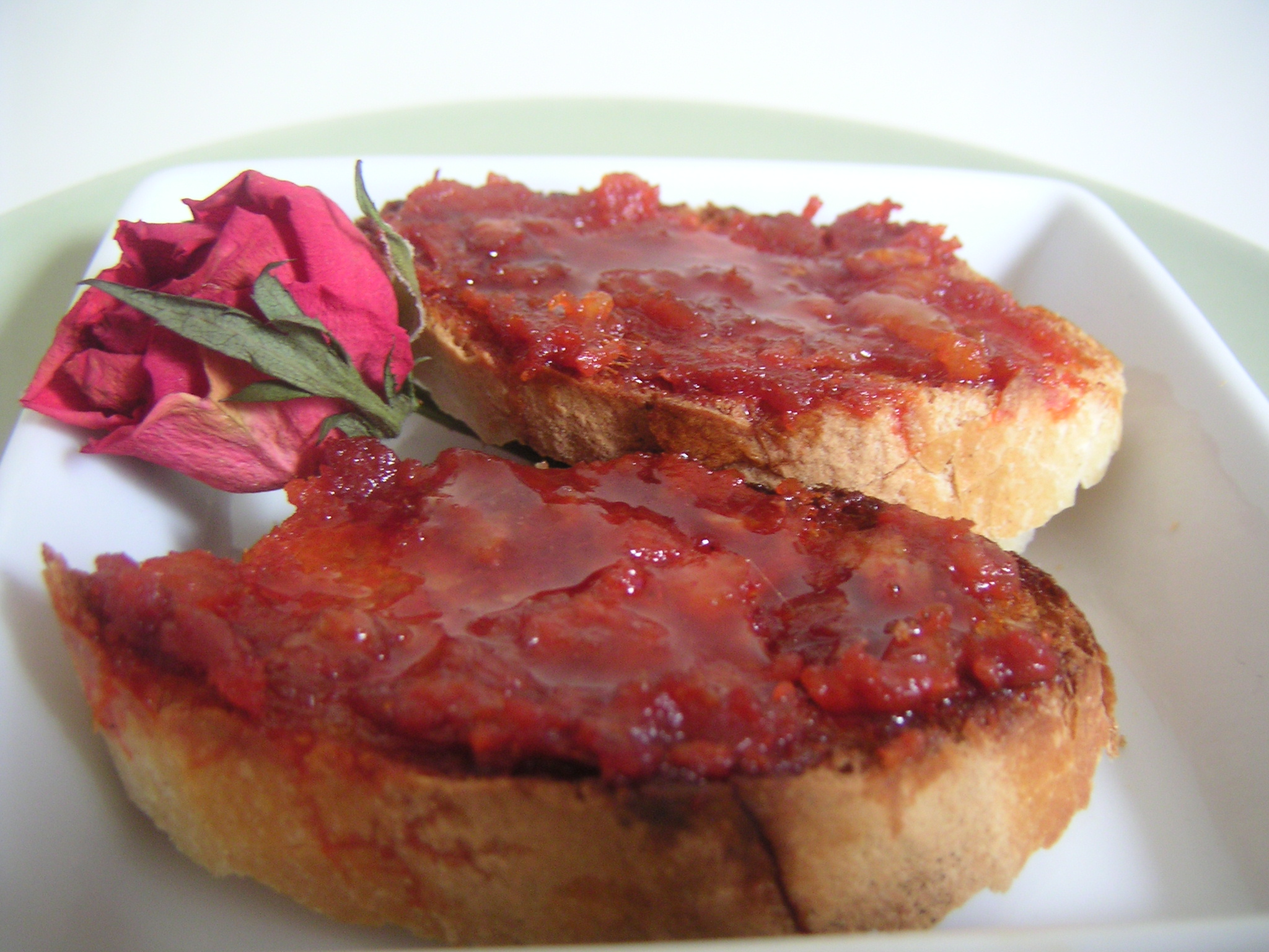 Bread with 'sobrassada' and honey. A simple typical way of eating sobrassada in the Catalan Countries (Catalonia, Valencia and Balearic Islands). It can be a dessert or a snack.